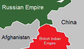 The Russian-India border, c. 1865, before the creation of the Wakhan Corridor.